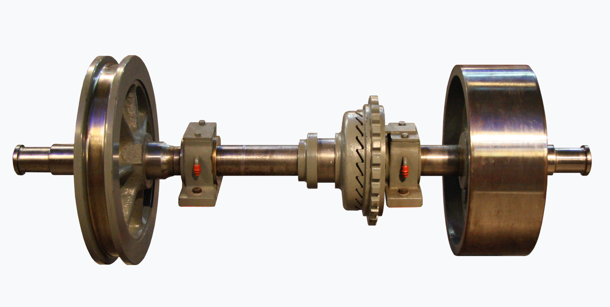 Wheelset of Heidelberg funicular compatible with Abt´s points